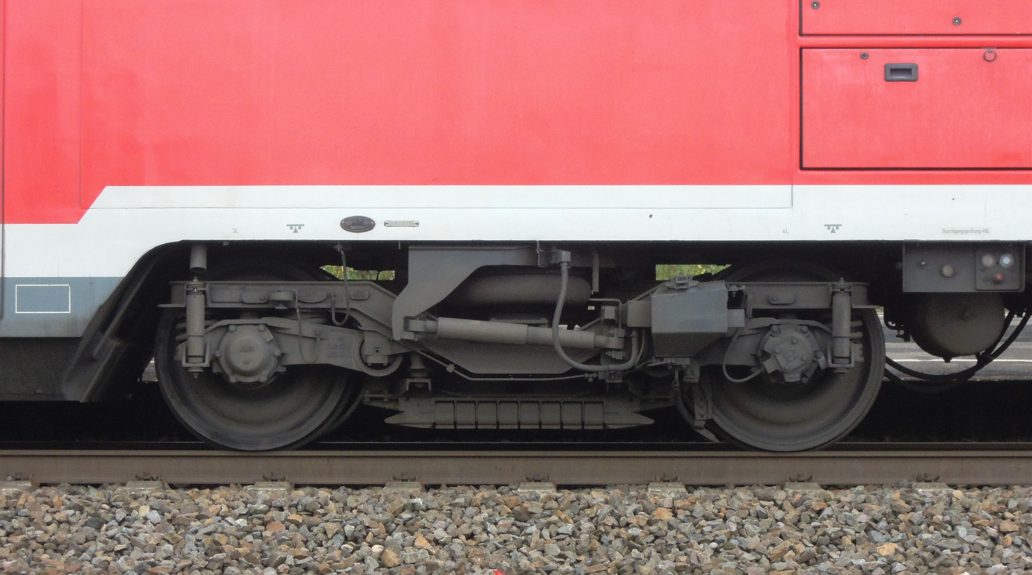 Görlitz VIII bogie for 160 km/h maximum speed under a German double-deck carriage.